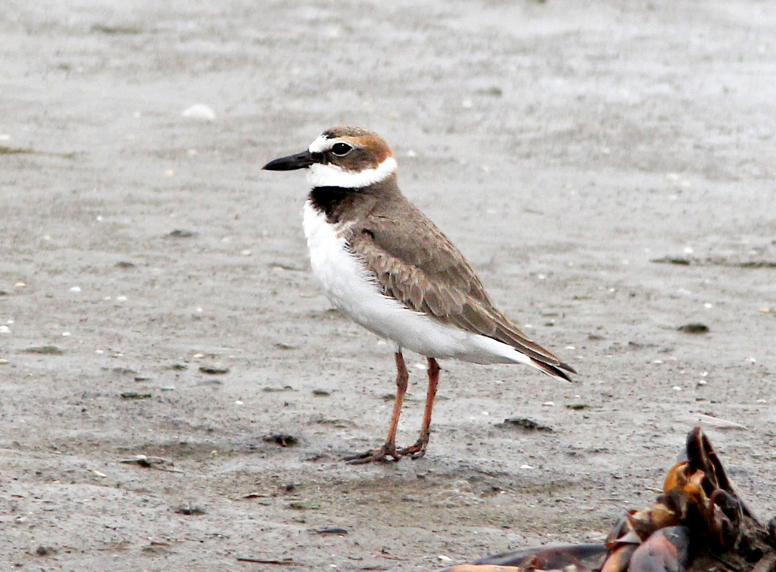 Wilson's Plover Charadrius wilsonia, Cameron County, Louisiana